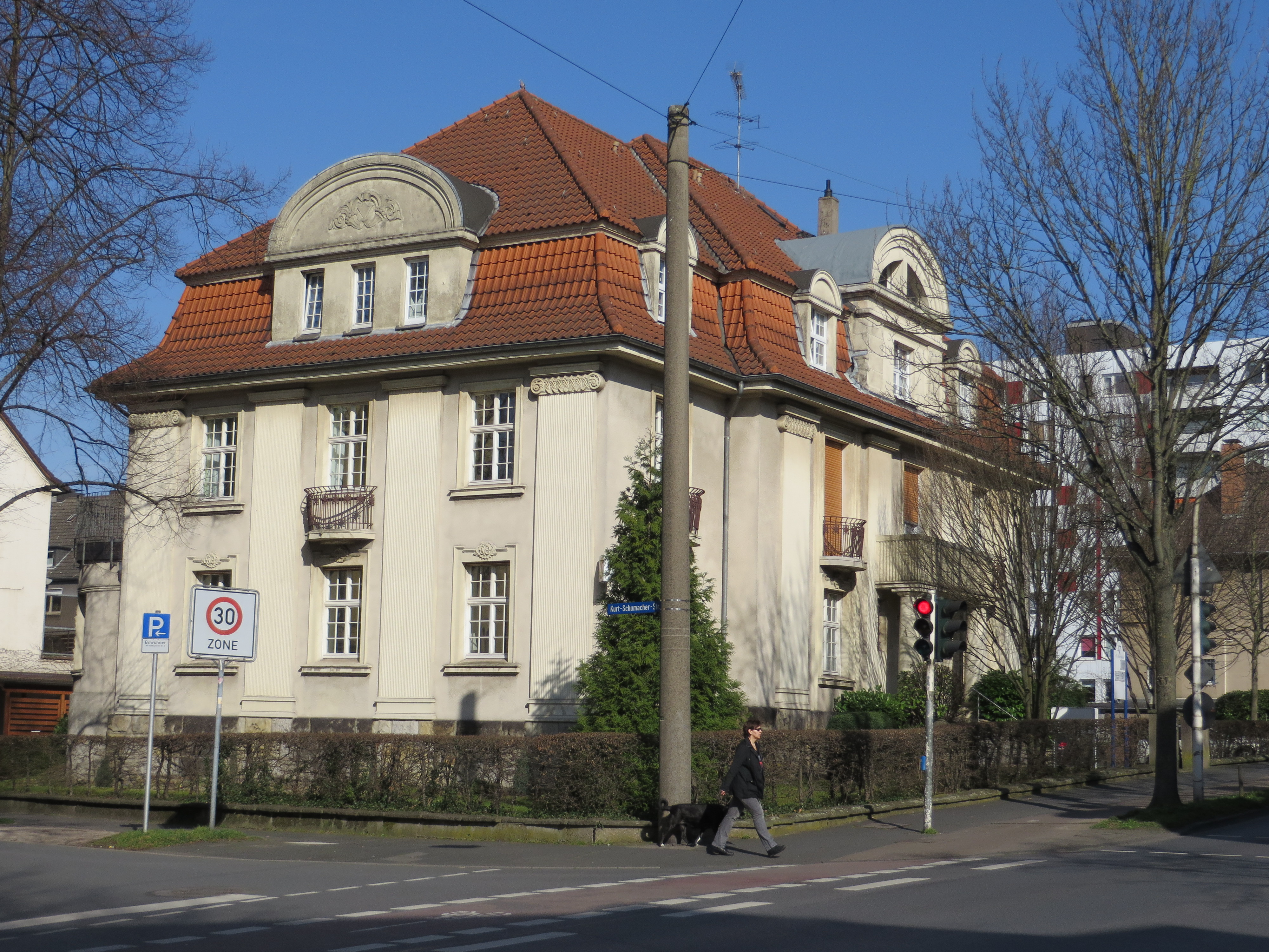 Villa Eichengrün, Husemannstraße 17 in Witten, Germany